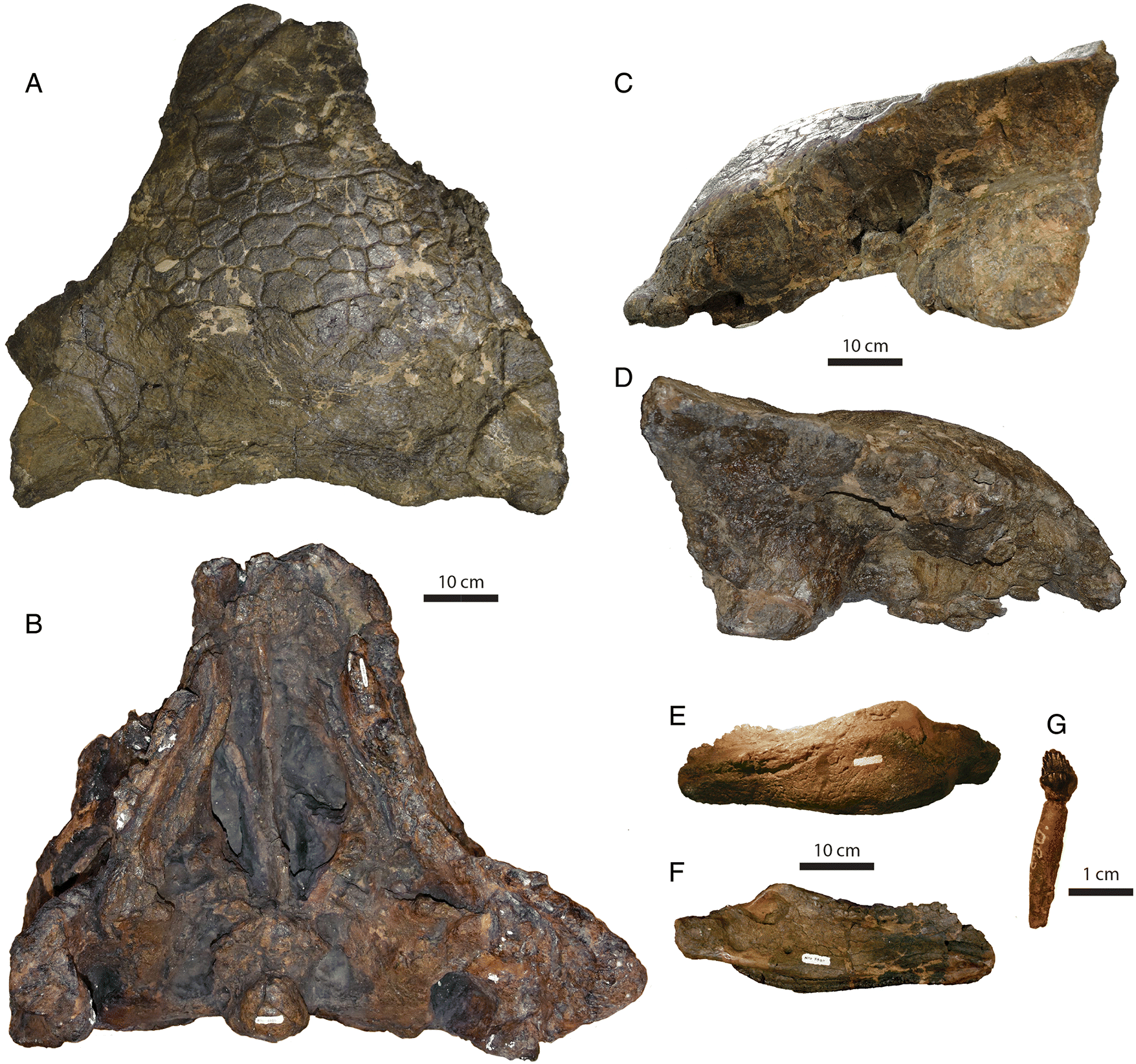 H Skull of CMN 8880, Ankylosaurus magniventris, in (A) dorsal, (B) ventral, (C) left lateral, and (D) right lateral views. The skull is well preserved on the dorsal and left lateral surfaces. The right lateral surface has caved inwards slightly, and the premaxillary beak is missing. Left lower jaw in (E) lateral and (F) medial view. (G) Dentary tooth in labial view.